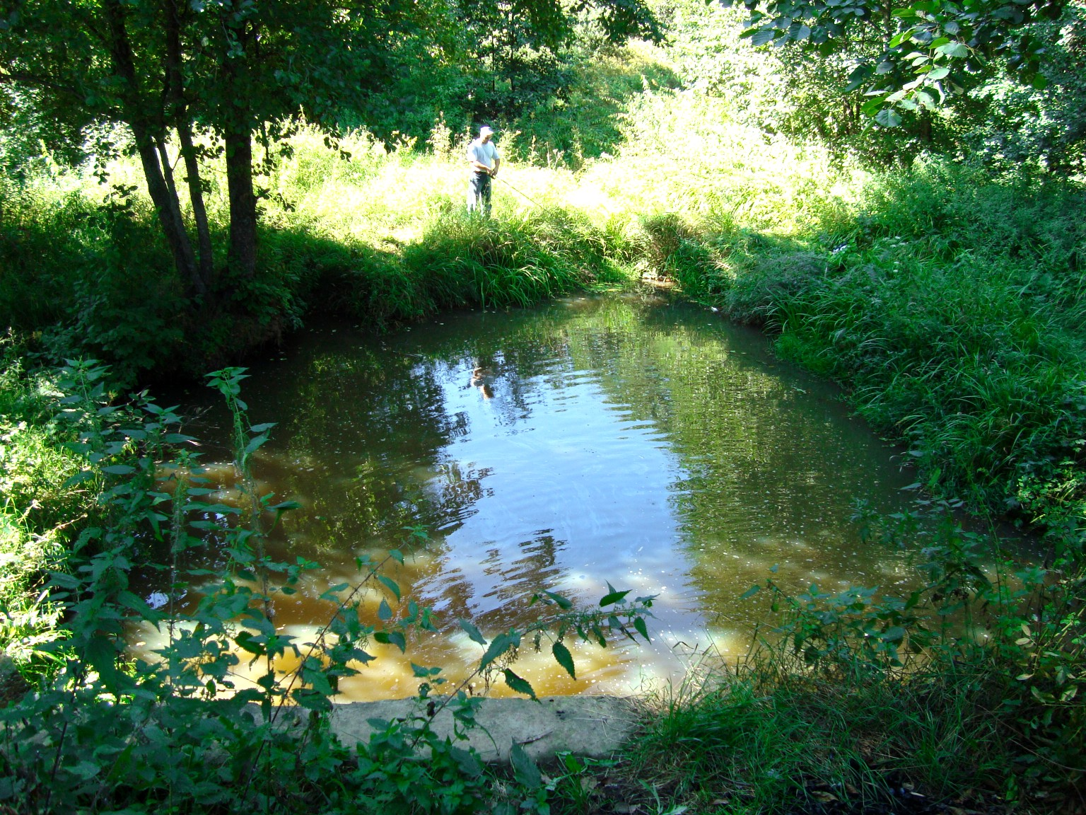 River Mergel at Vladimir oblast, Russia